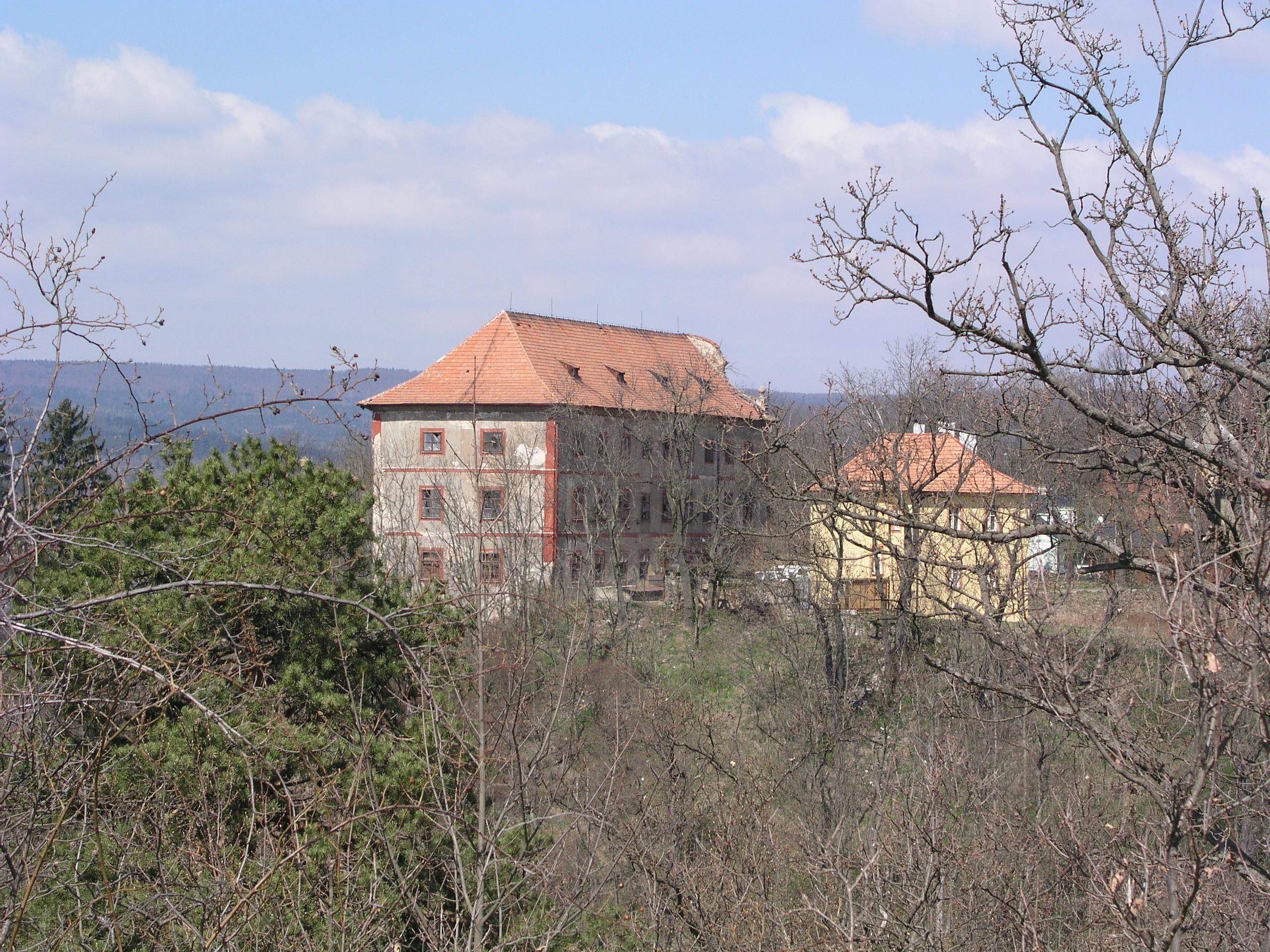 Castle Vargač in Dobříš, formerly hunting castle.